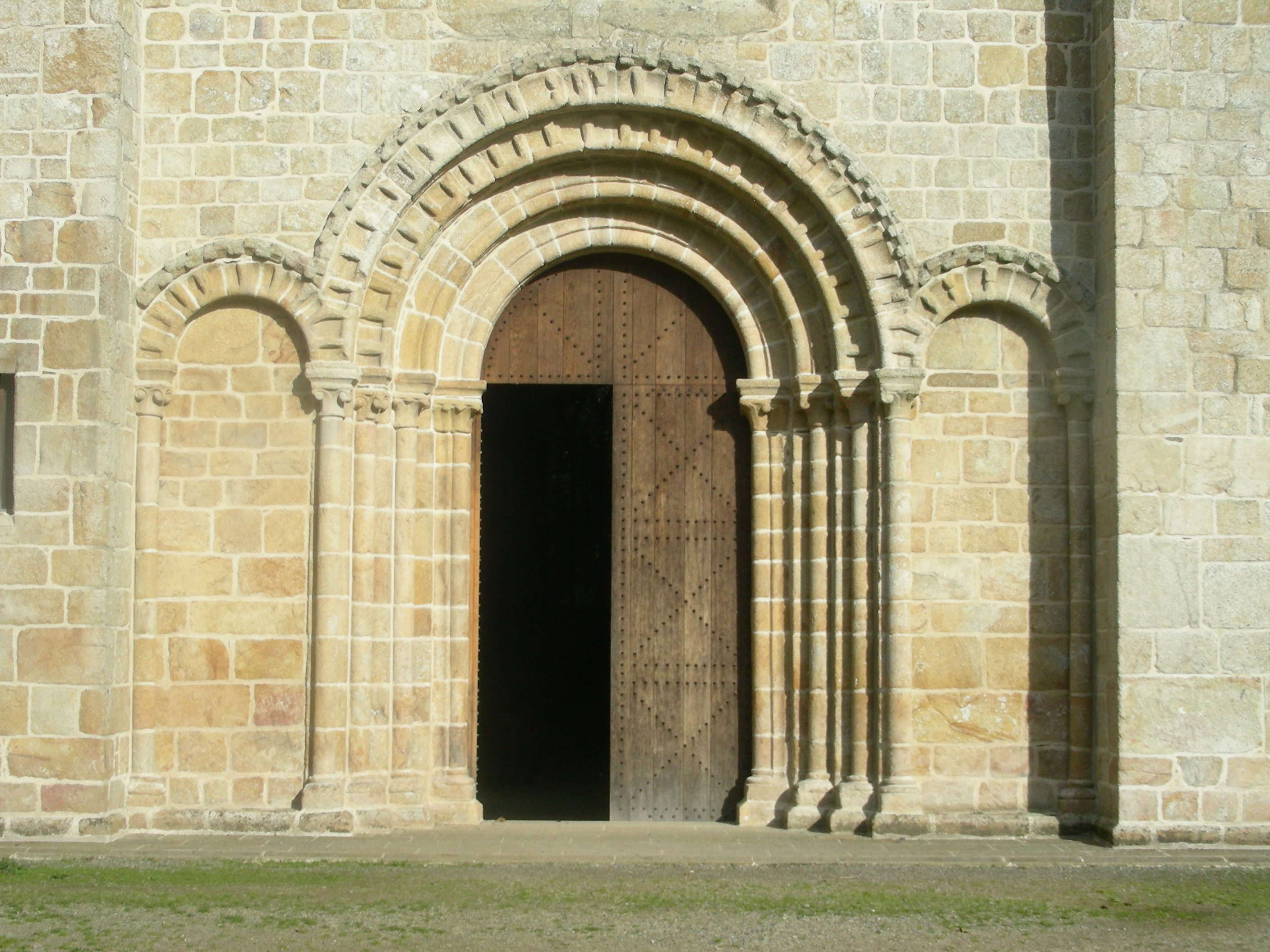 Abbey of Saínte Trinité de La Lucerne, the Church, front, doors